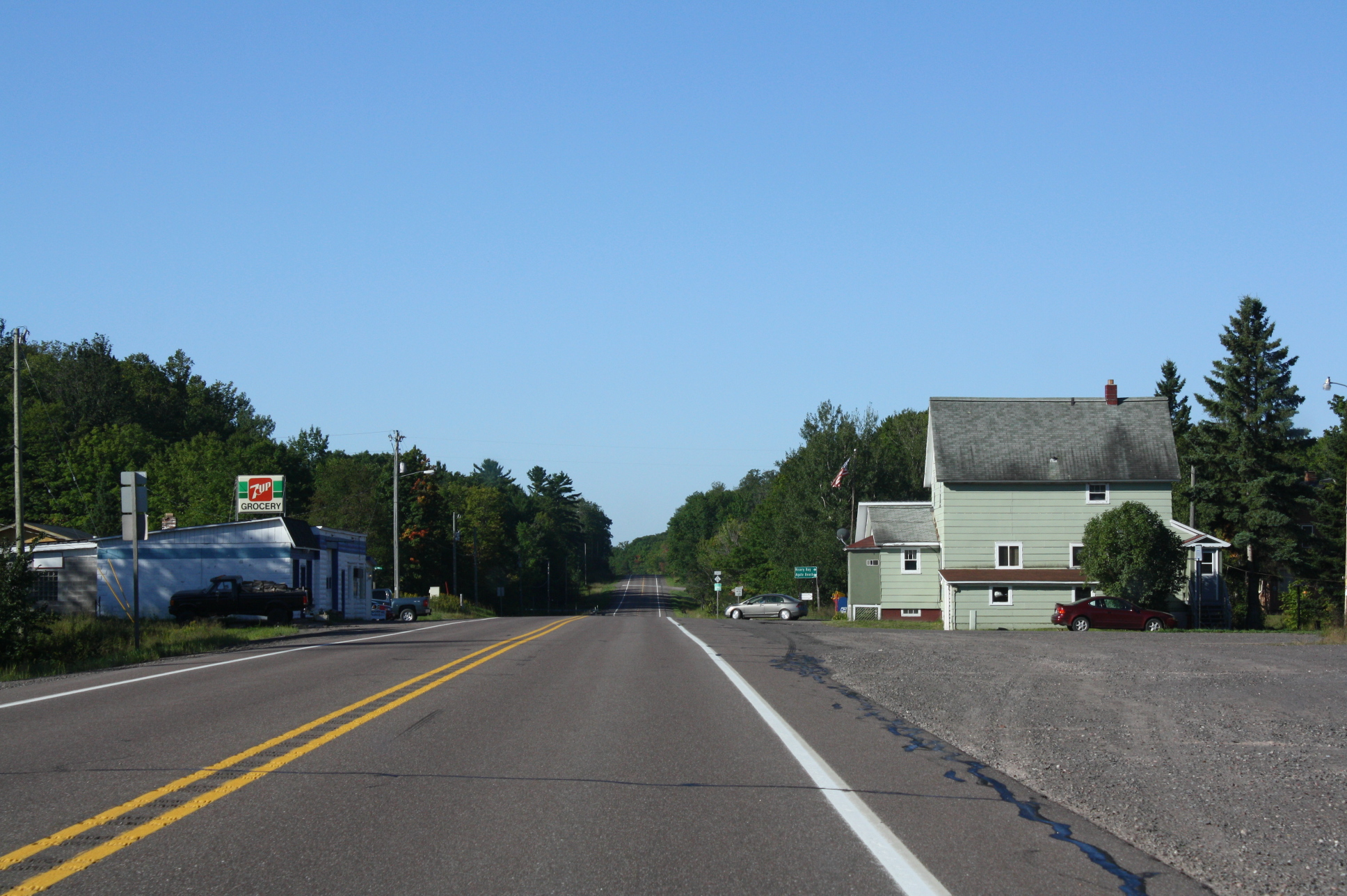 Looking south at Toivola, Michigan on M-26 (Michigan highway).